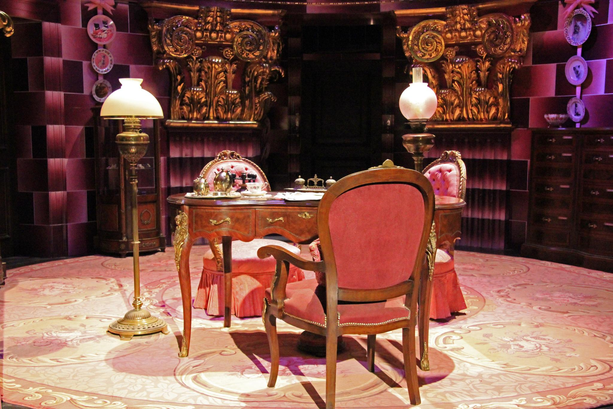 Warner Bros. Studio Tour London: The Making of Harry Potter.